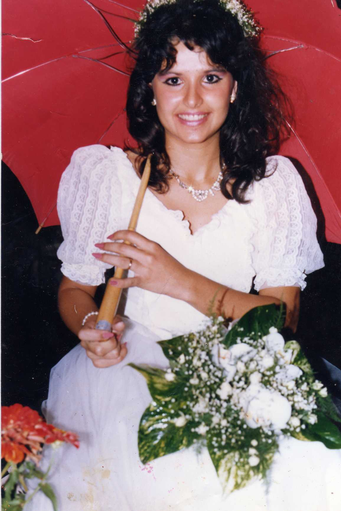 Bride.